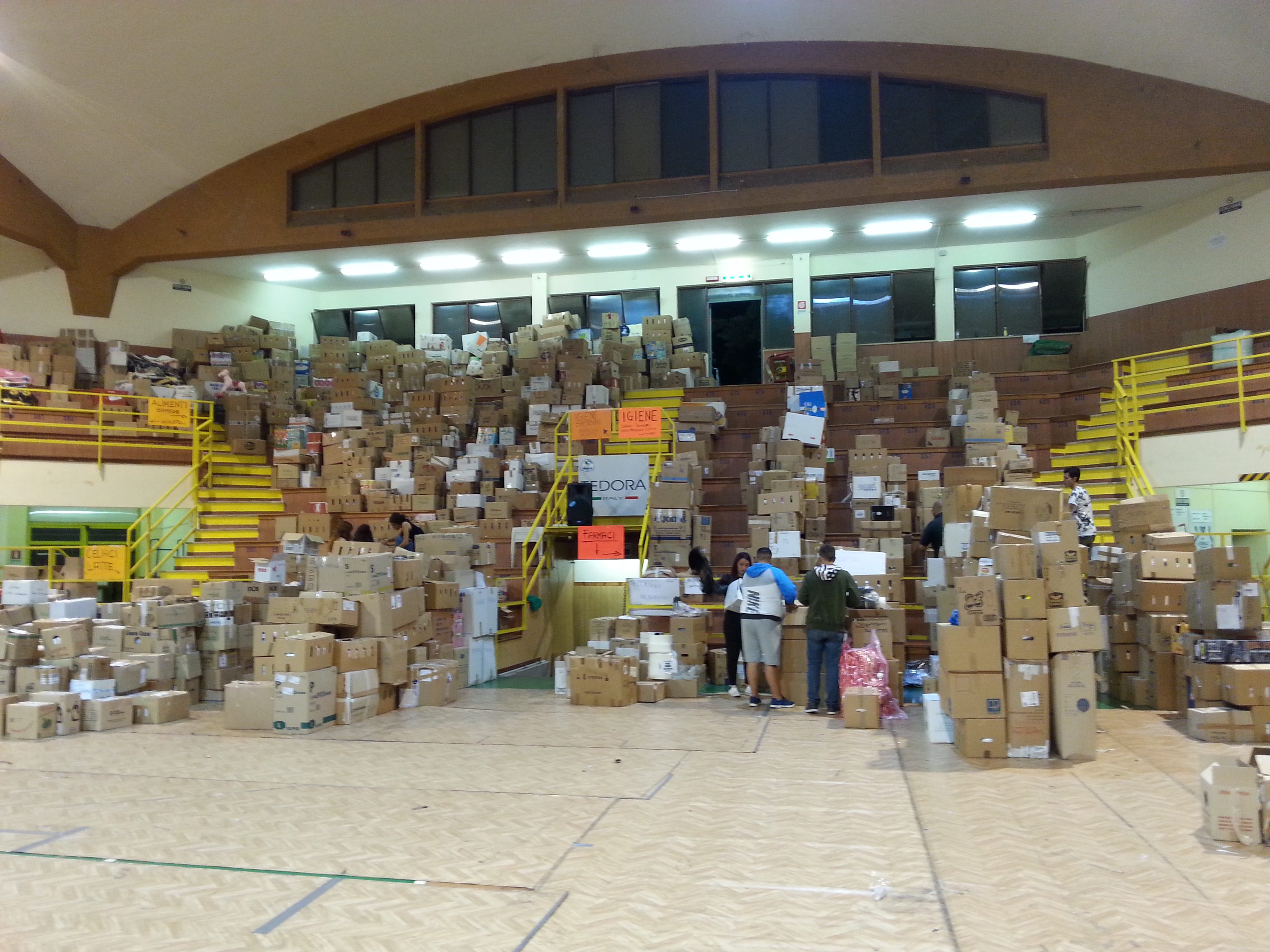 Collection center for primarily needed goods after the 2016 Amatrice earthquake established by the municipality of Rieti in the PalaCordoni indoor arena